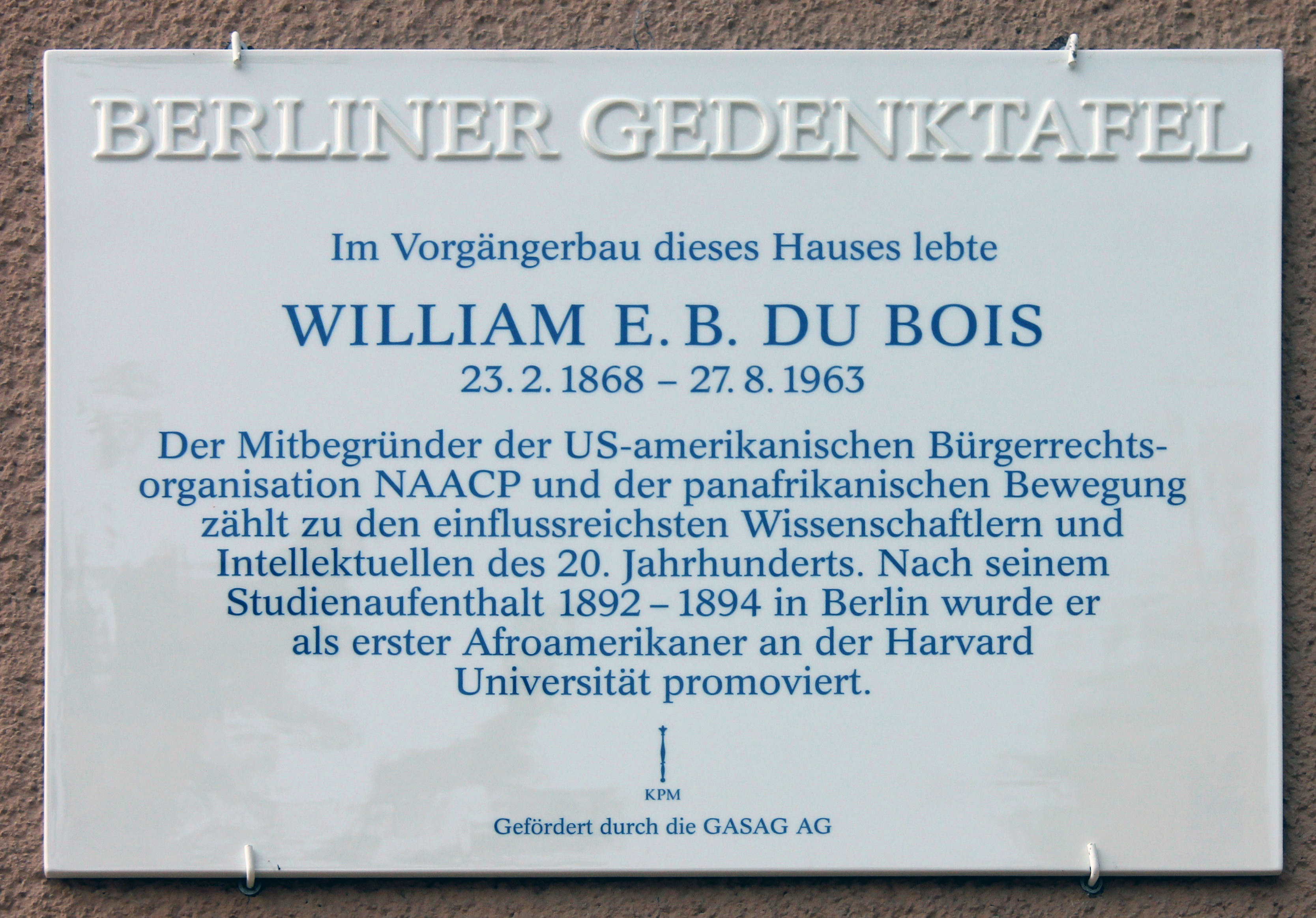 Berlin memorial plaque, William Edward Burghardt Du Bois, Oranienstraße 130, Berlin-Kreuzberg, Germany